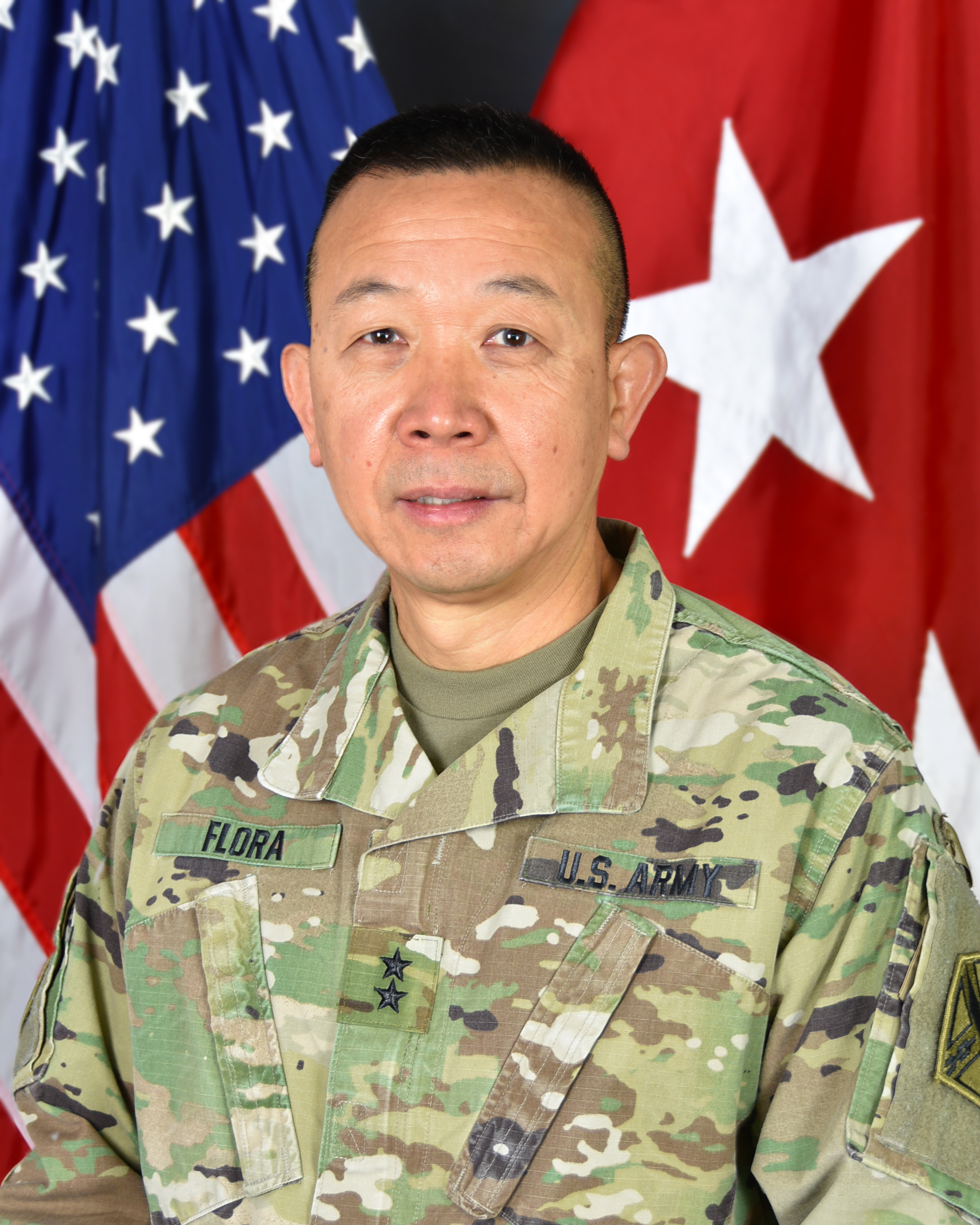 Maj. Gen. Lapthe C. Flora